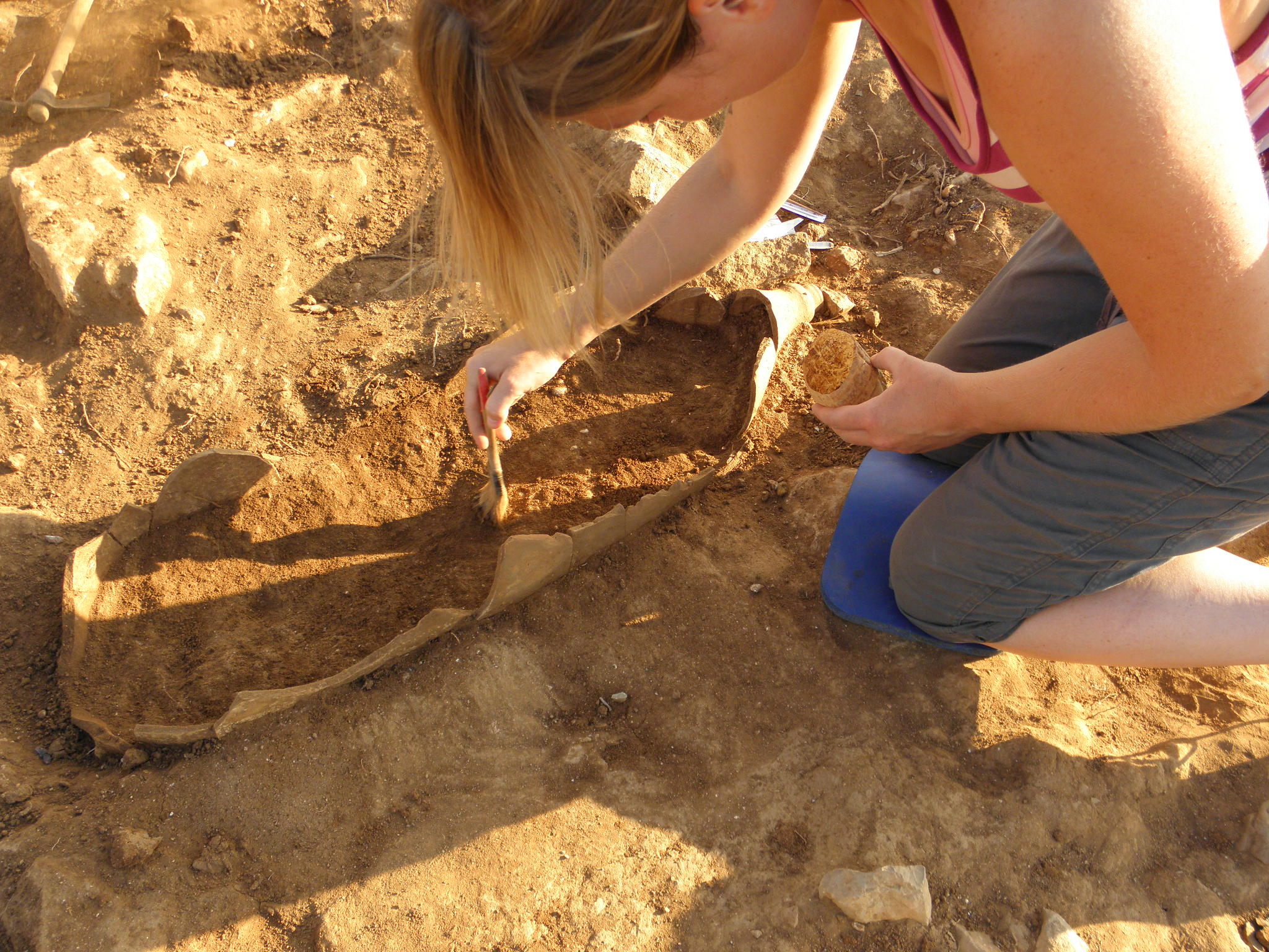 Excavation of tomb 42: an African amphora containing the remains of a child. From Necropolis 6, Sanisera